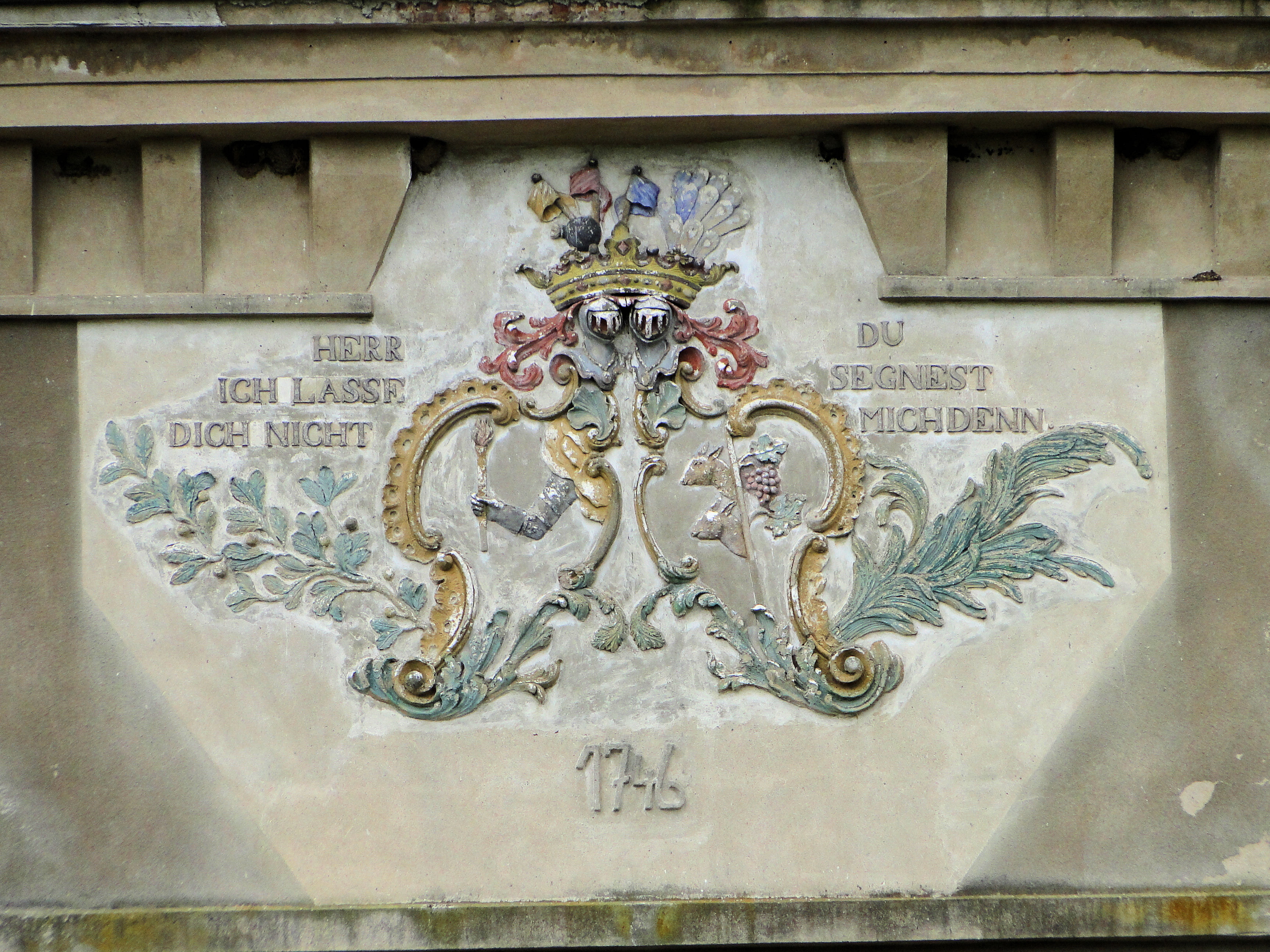 Coat of arms on the manor house in Bülow, district Ludwigslust-Parchim, Mecklenburg-Vorpommern, Germany; the inscription is from Genesis 32:26